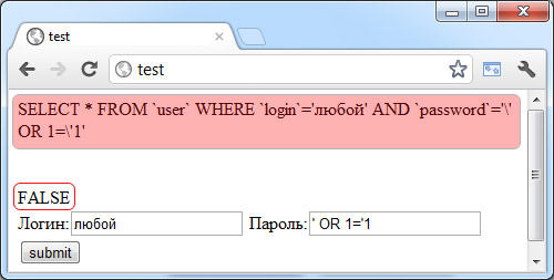 sql_inektsiy